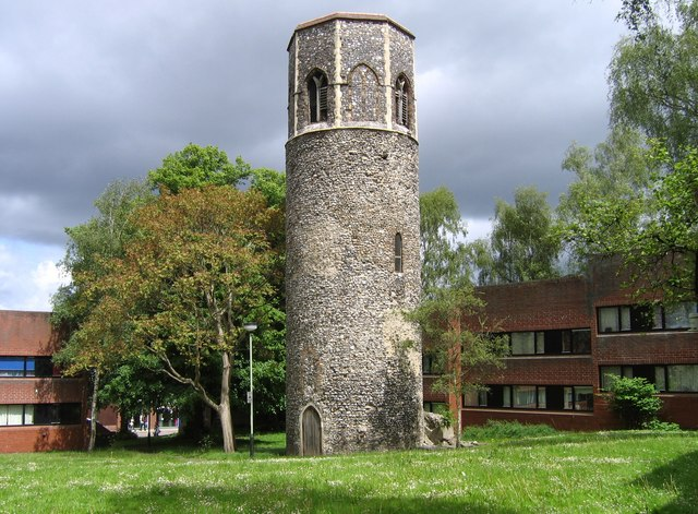 St. Benedicts Church Tower, Norwich. The area suffered heavy bombing in January 1942 and the church building was severely damaged. Only the tower remains standing in the Pottergate housing development in Ten Bell Court